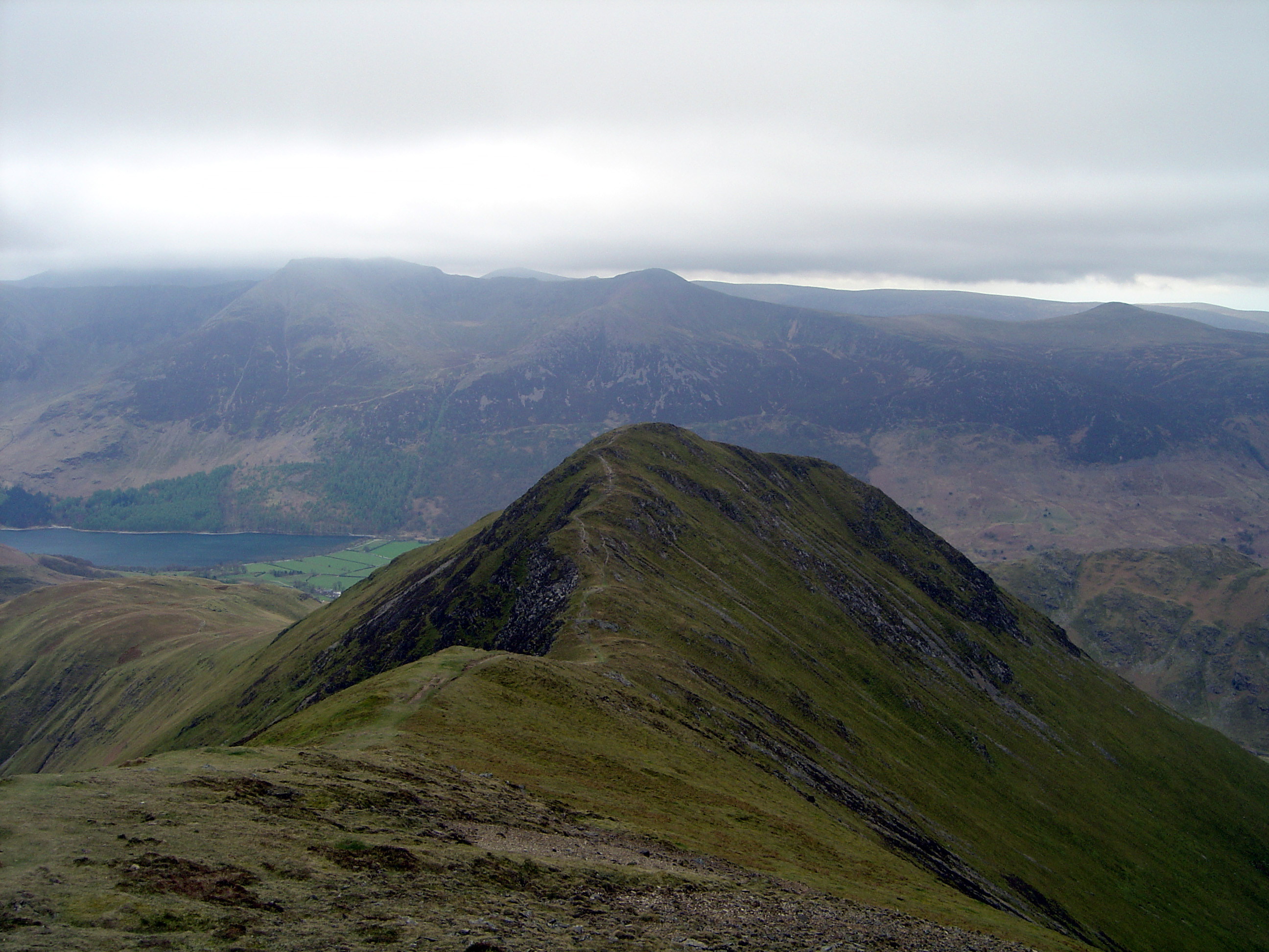 Whiteless Pike from Whiteless Edge. High Stile range in background